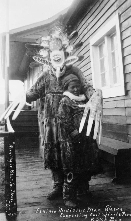 Eskimo Medicine Man. Alaska, Exorcising Evil Spirits from a Sick Boy. Other title: "Working to beat the devil." Found in the collections of the Library of Congress dated 1900-1925. Per Fienup-Riordan (1994), this photo is also found in the Thwaits Collection, Special Collections Division, University of Washington Libraries, where it is identified as having been photographed in Nushagak, Alaska in the 1890s (Fienup-Riordan, Ann. (1994). Boundaries and Passages: Rule and Ritual in Yup'ik Eskimo Oral Tradition. Norman, OK: University of Oklahoma Press, p. 206.) Nushagak, located on Nushagak Bay of northern Bristol Bay in southwest Alaska, is part of the territory of the Yup'ik, speakers of the Central Alaskan Yup'ik language.